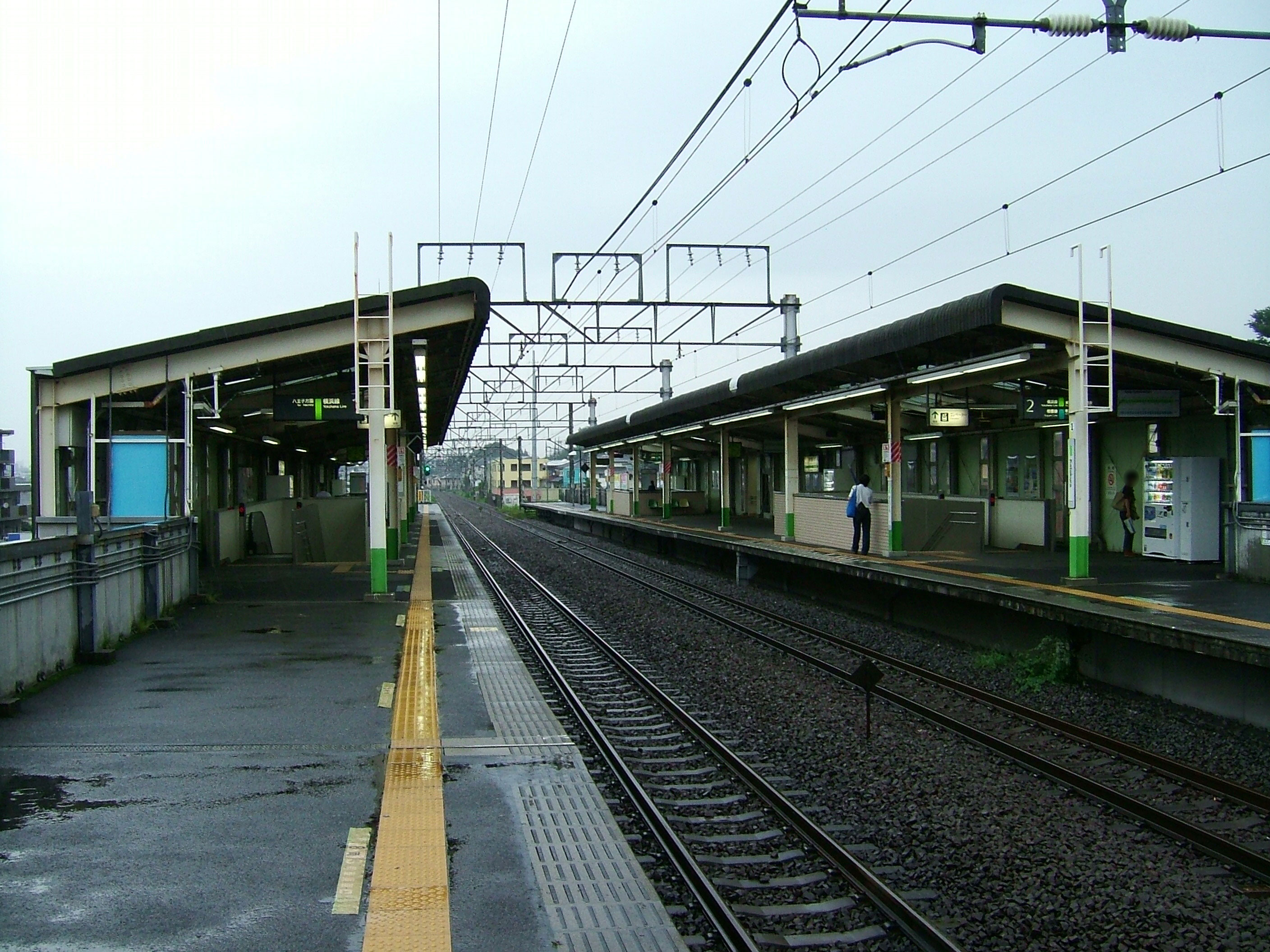 Katakura Station platform (East Japan Railway Yokohama Line)